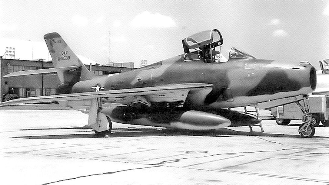 182d Tactical Fighter Squadron - General Motors F-84F-40-GK Thunderstreak 51-9530